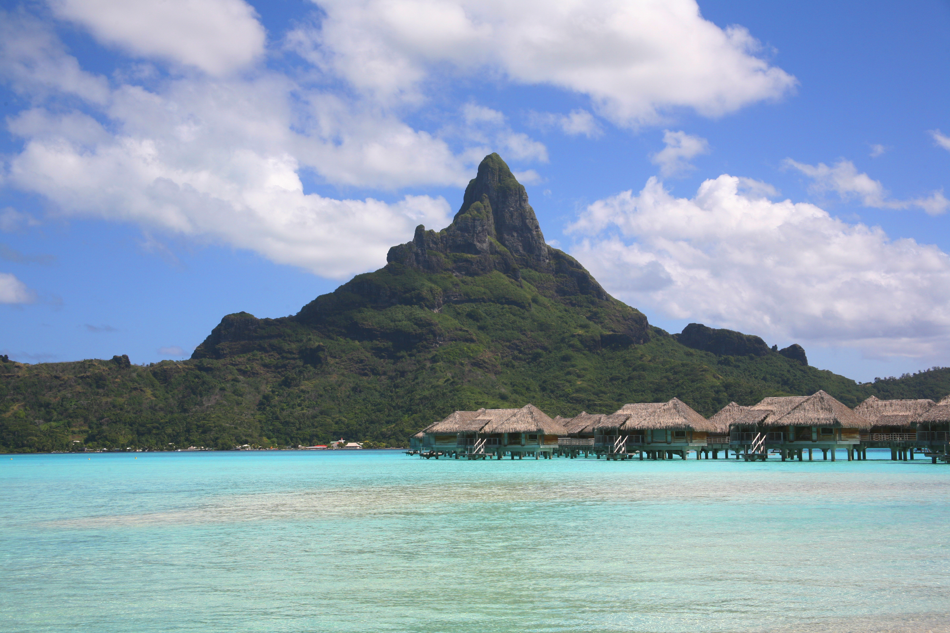 Island of Bora Bora, French Polynesia